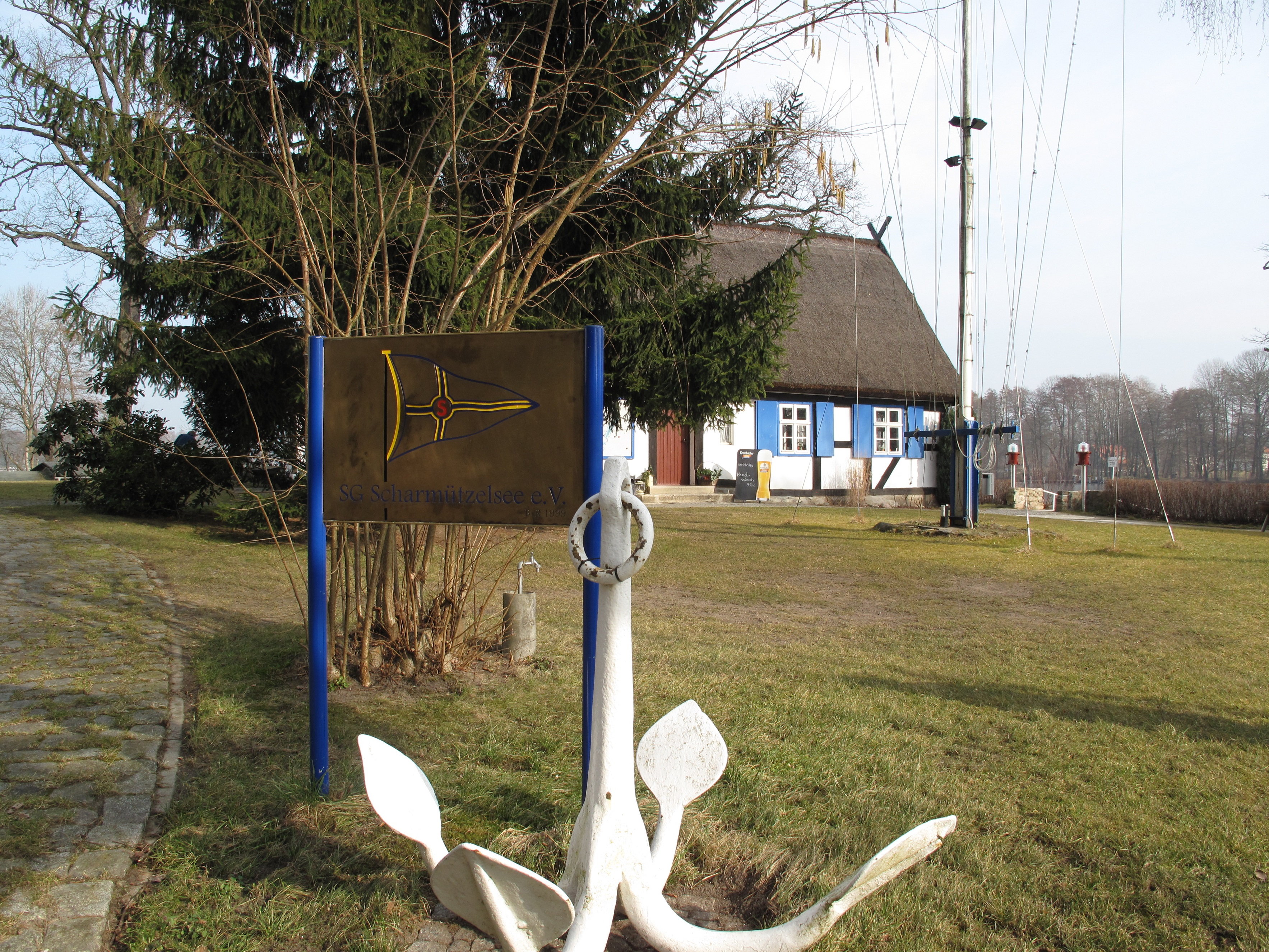 Listed building (club house of the yachtclub „Seglergemeinschaft Scharmützelsee e. V. “ (SGS)), Regattastr. 1, in „Dorf Saarow“, part of Bad Saarow in the District Oder-Spree, Brandenburg, Germany. The house was built around 1777/80 and part of the manor Saarow (today: Eibenhof).